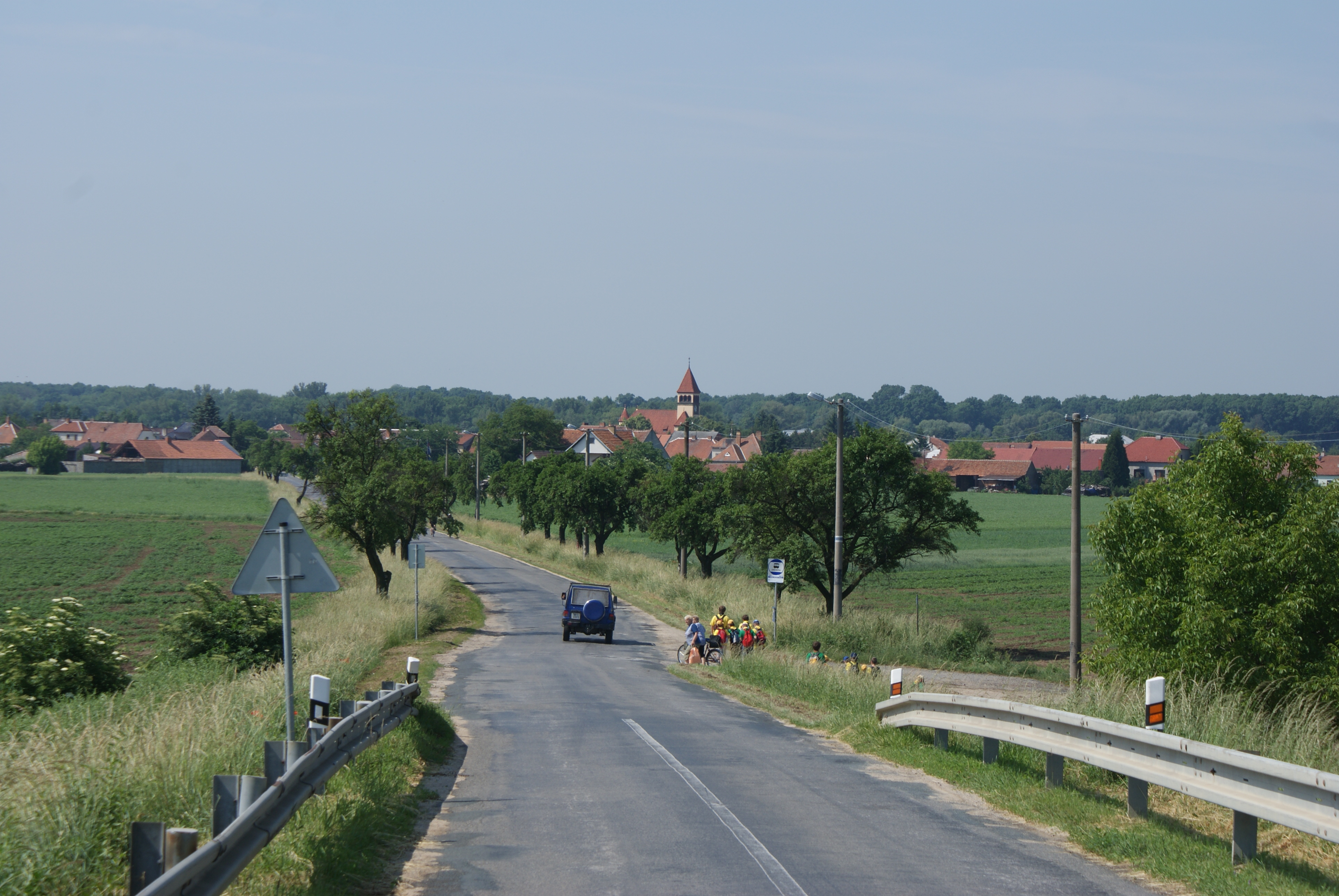 Ladná, a village in Břeclav District, Czech Republic, distant view.